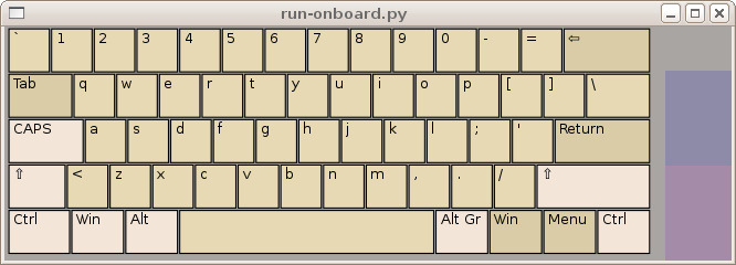 That new OnBoard Python based keyboard Ubuntu has now. I'm told those colored tabs can be used to access more keys.